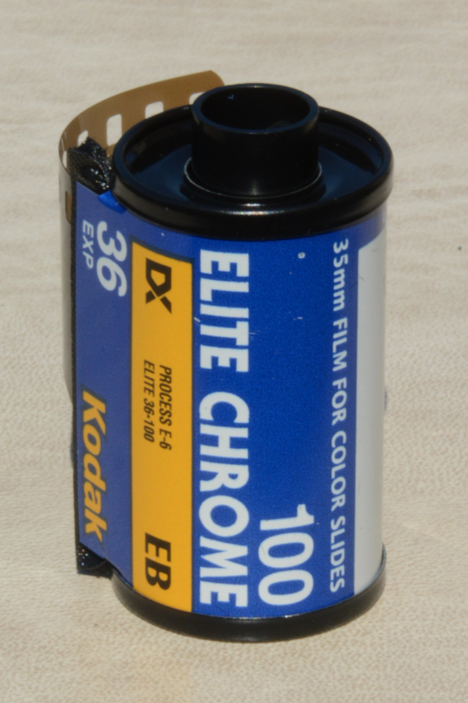 Kodak Elitechrome 100 Professional - Film for colour slides